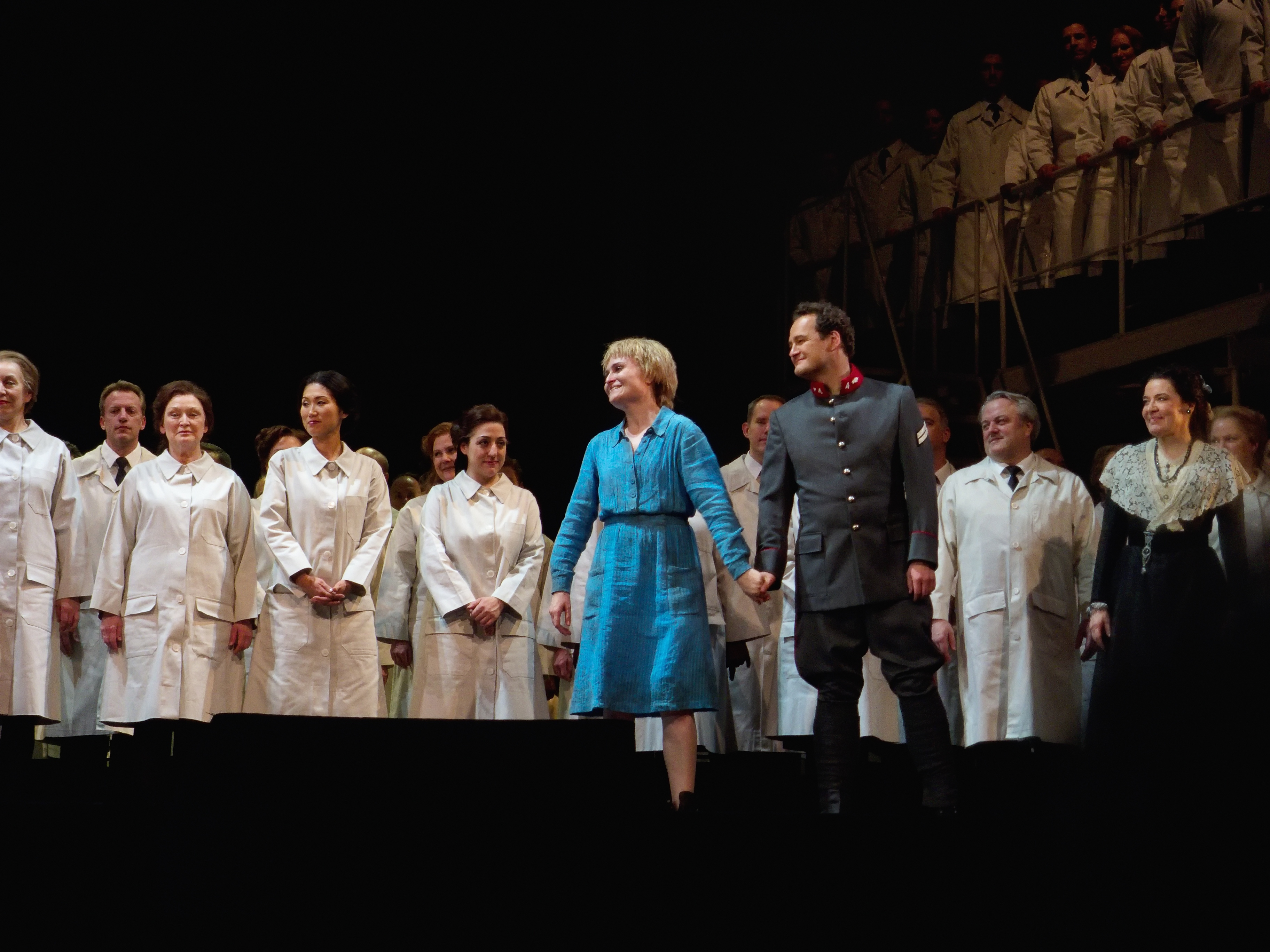 Marguerite (Marina Poplavskaya) and Valentin (Russell Braun), Faust opera, Metropolitan Opera House, New York, Dec. 2011